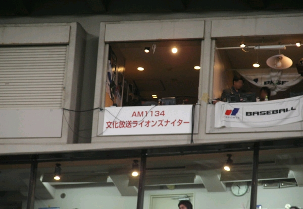 Nippon Cultural Broadcasting Lions-nighter broadcast studio